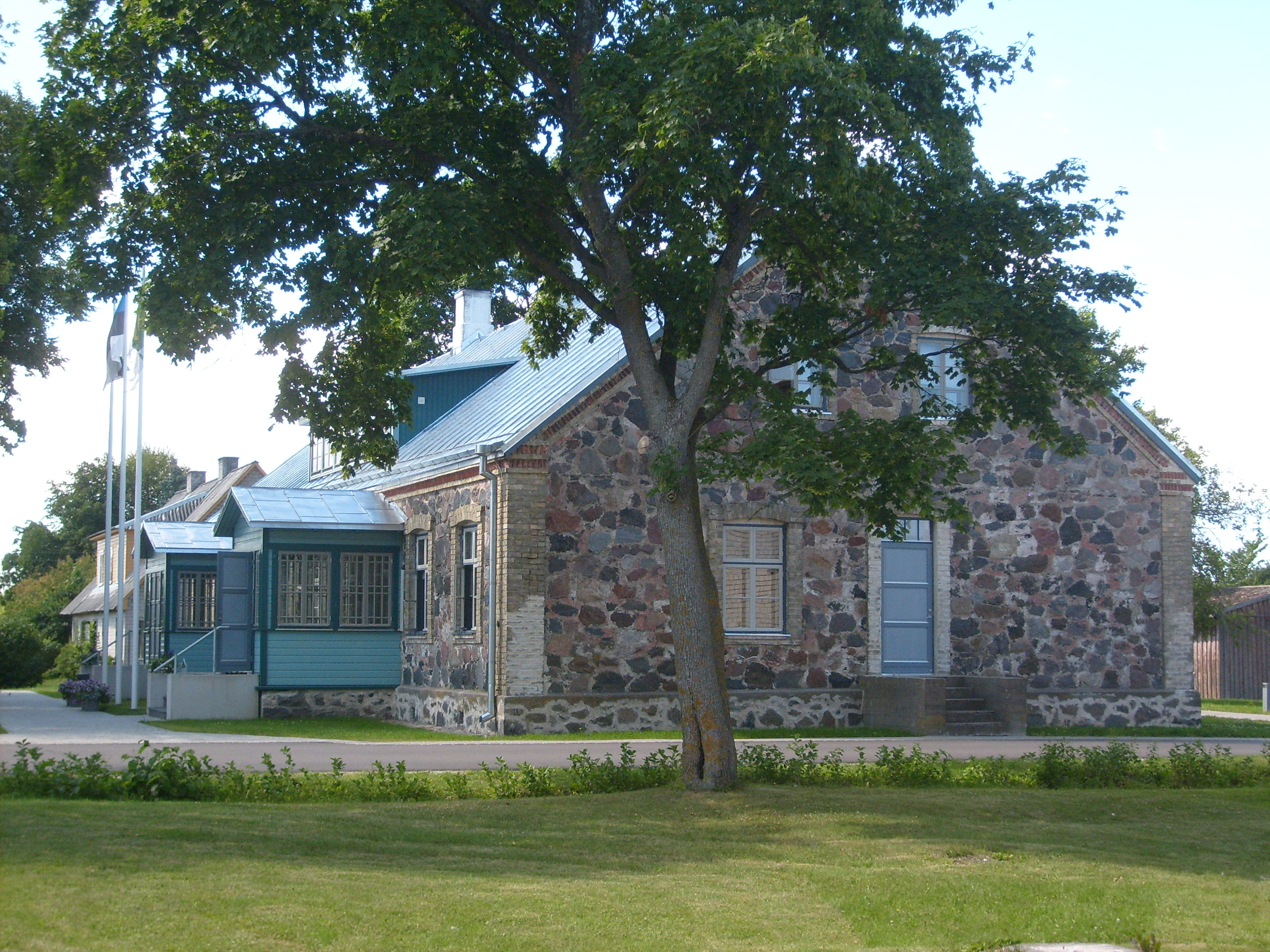 The house of the communal administration, Kaina, Hiiumaa, Estonia